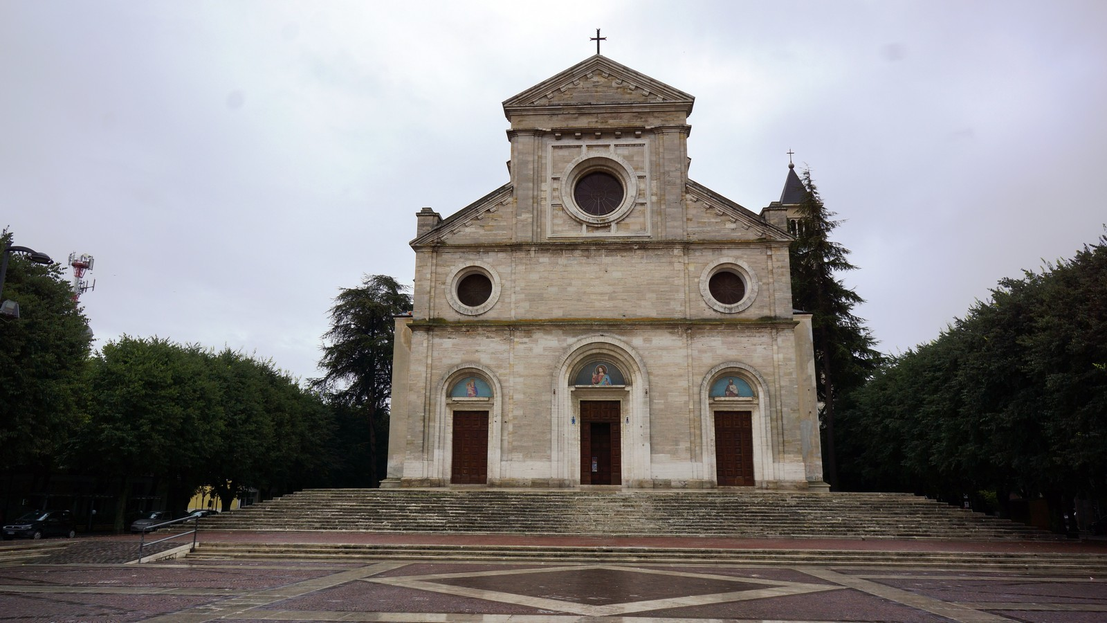 Cathedral, Avezzano, Abruzzo, Italy